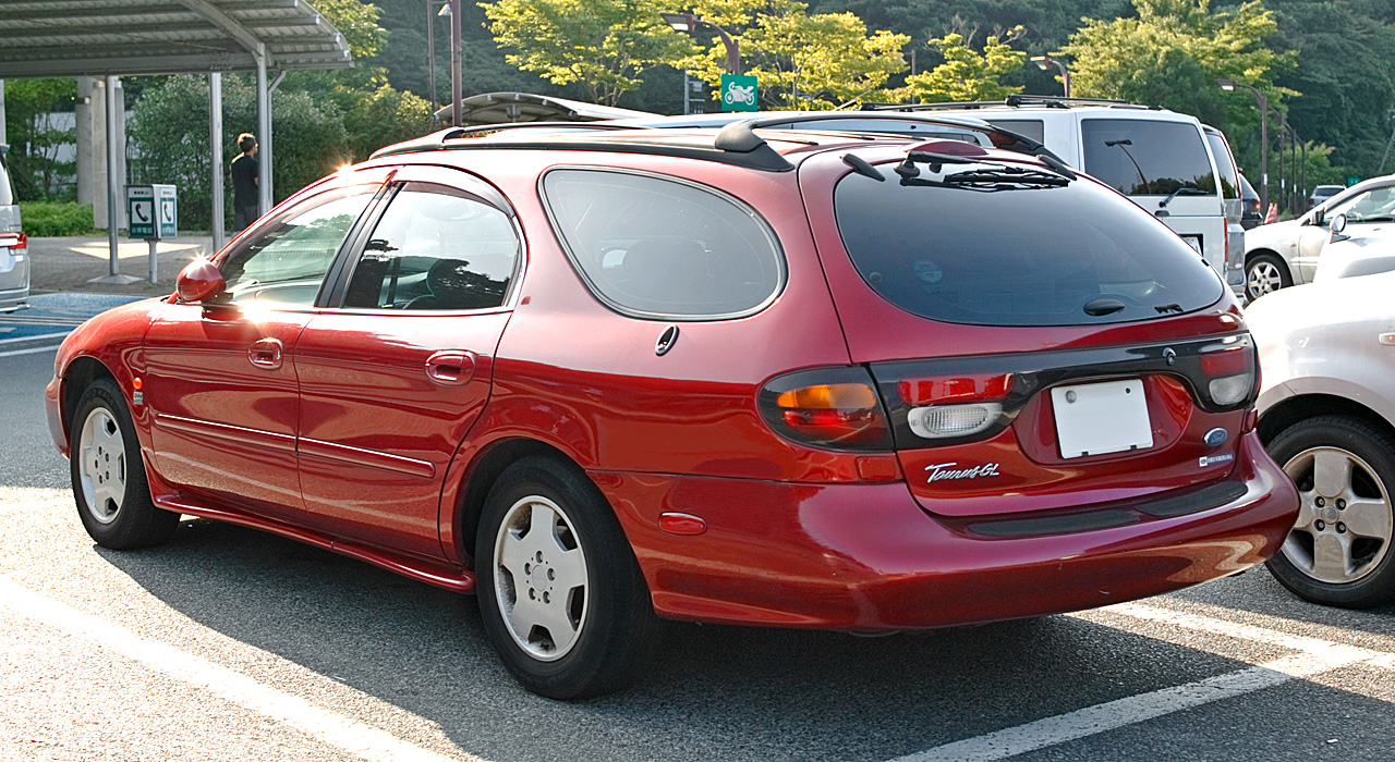 The Third generation Ford Taurus Wagon ( Japan ver. )